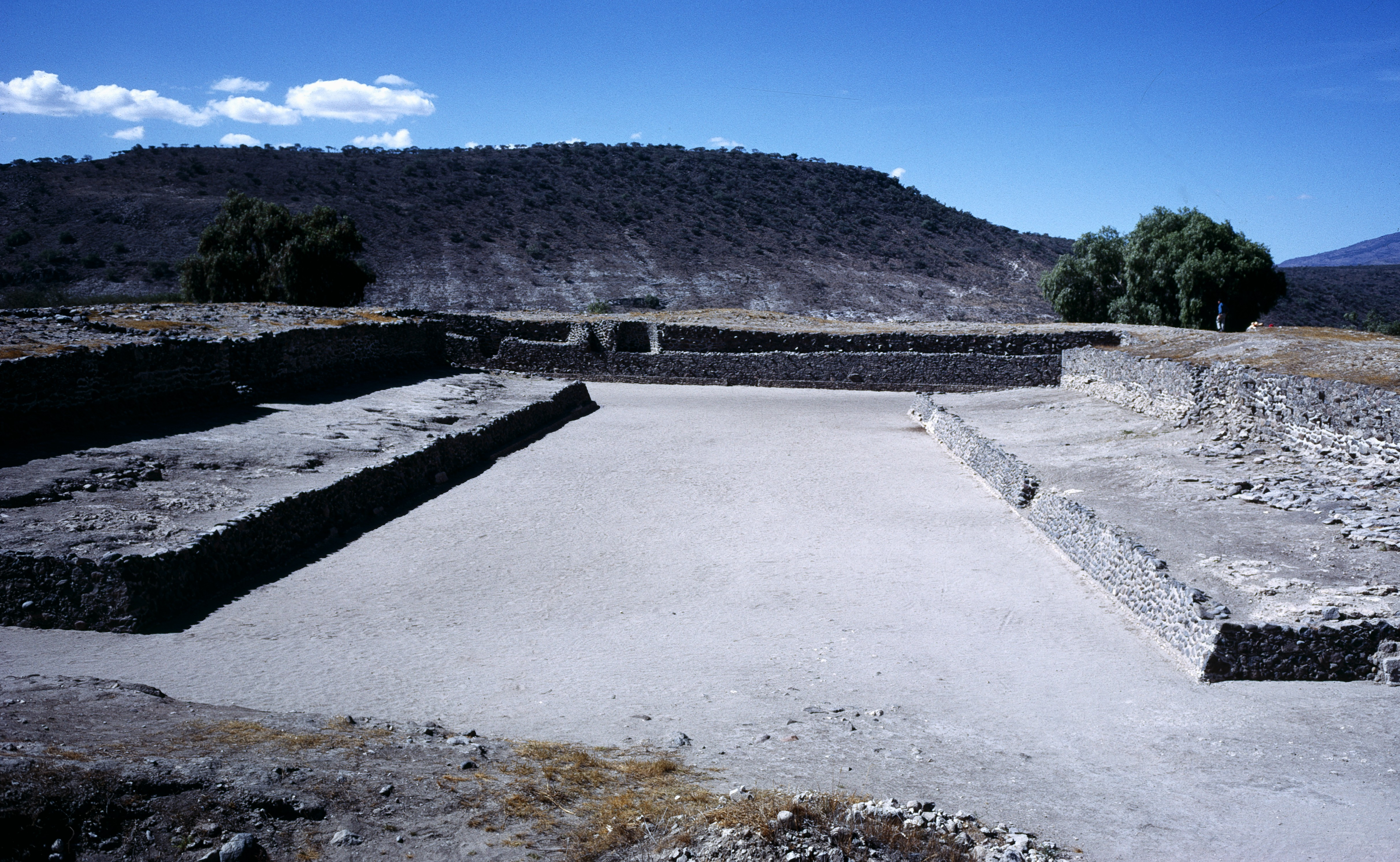 Tula, Hidalgo, Mexico: ball court 1